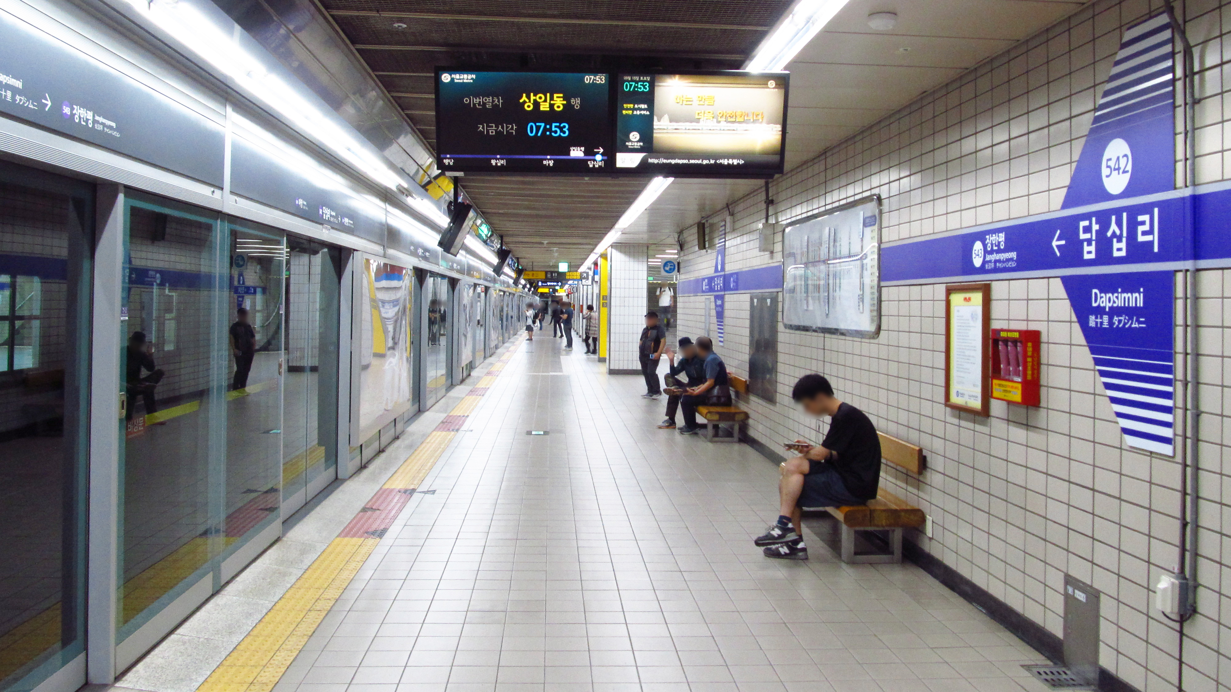 The platform at Dapsimni Station on Seoul Subway Line 5 in Dongdaemun-gu, Seoul, Republic of Korea(South Korea)